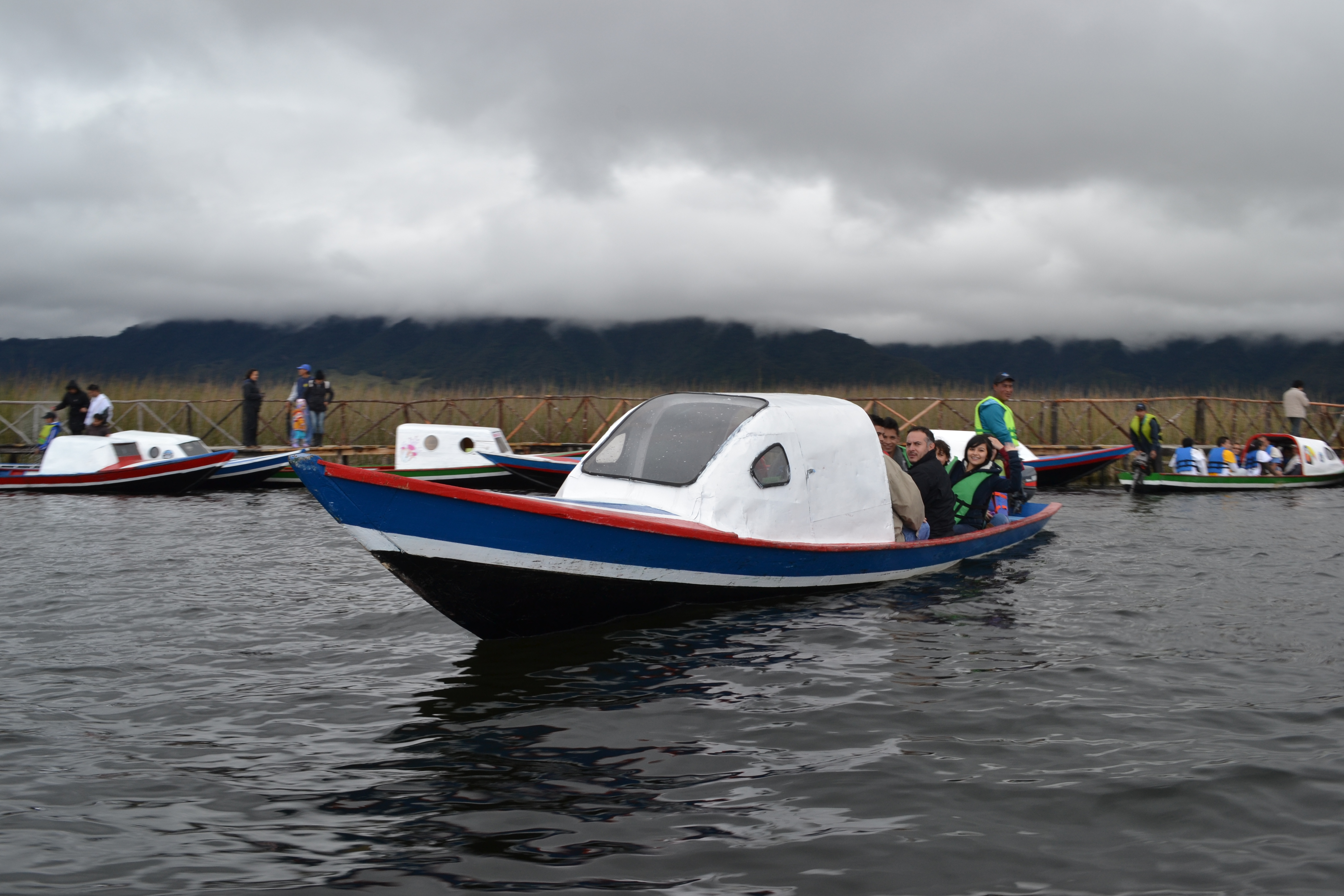 Boats at La Cocha Lake. The boats, operated by natives, bring tourist to La Cotora Island.